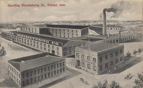 A factory of Spalding Manufacturing Co., in Grinnell, Iowa, United States.